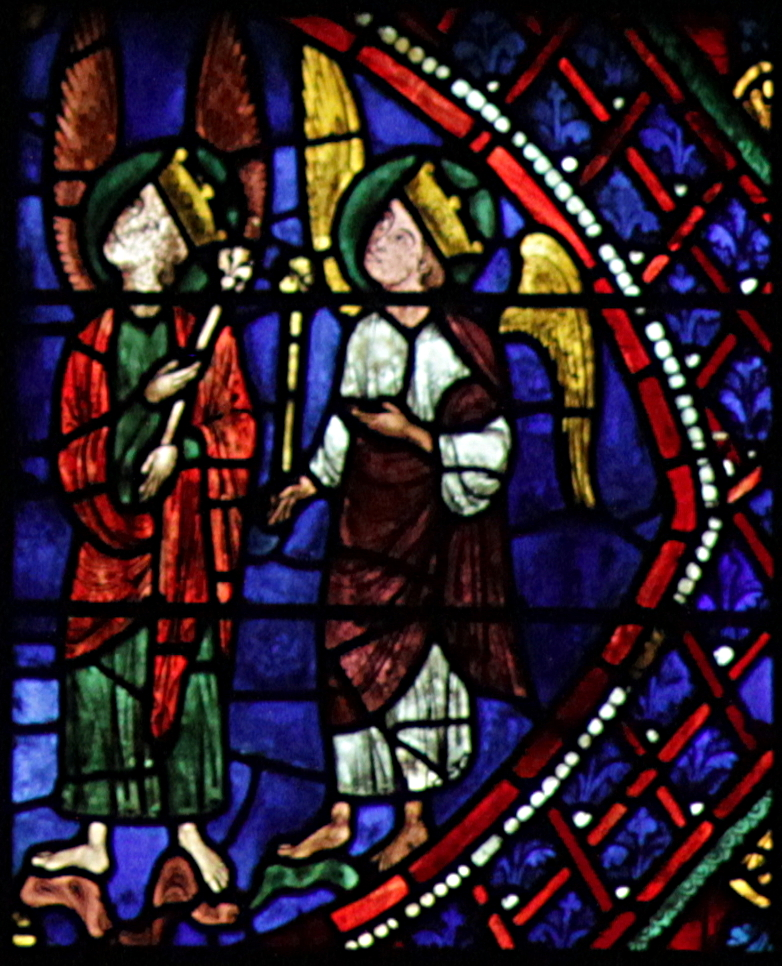 Fragment of File:Chartres 36 -Corrected.jpg - Row 09 : Panel 27 - Celestial Hierarchy VI - Dominions.